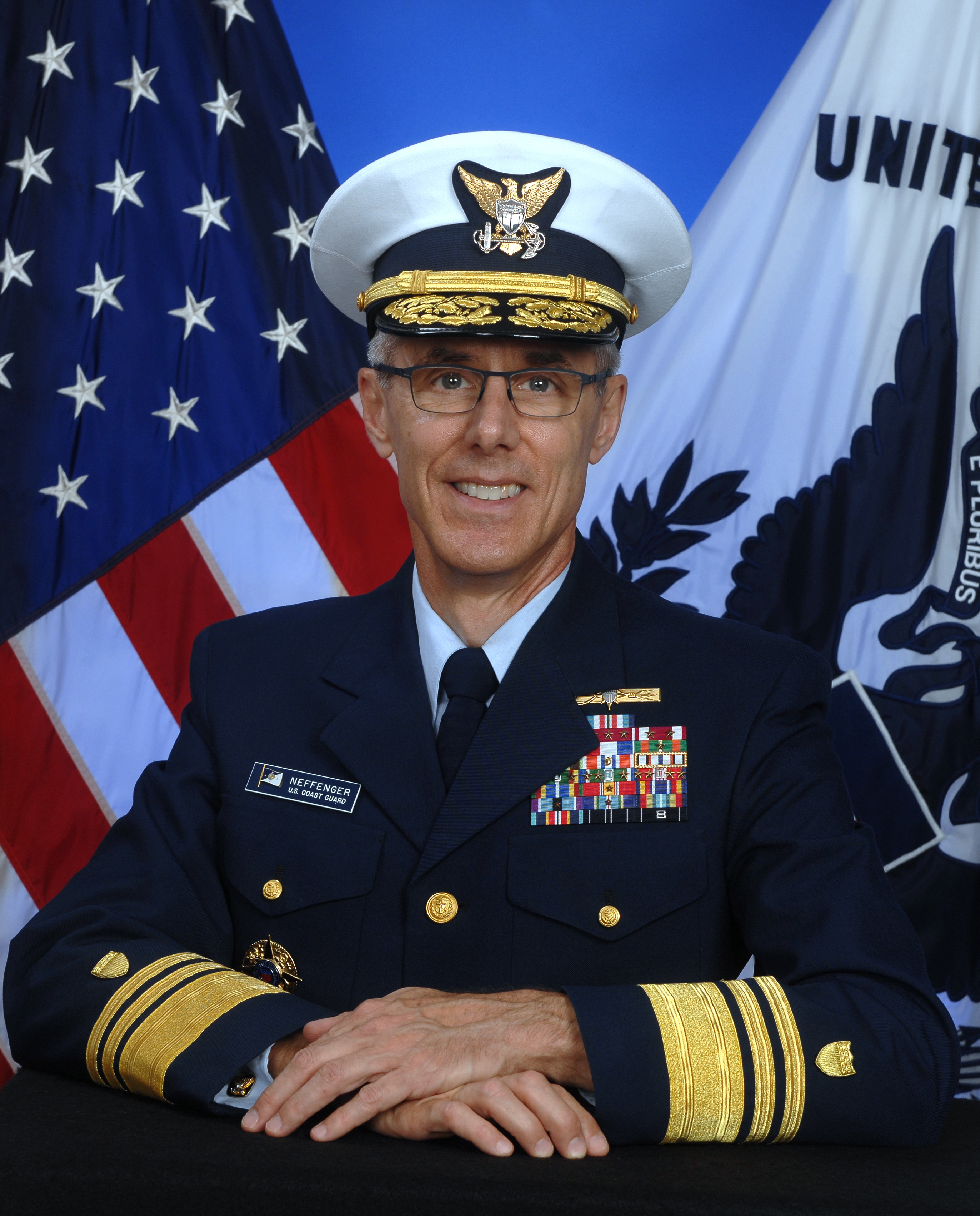 Vice Admiral Peter V. Neffenger, 29th Vice Commandant of the United States Coast Guard.